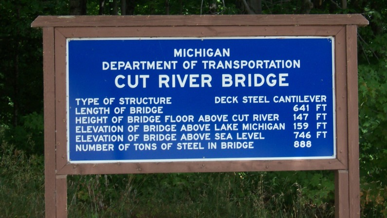 Michigan Department of Transportation sign at the Cut River Bridge